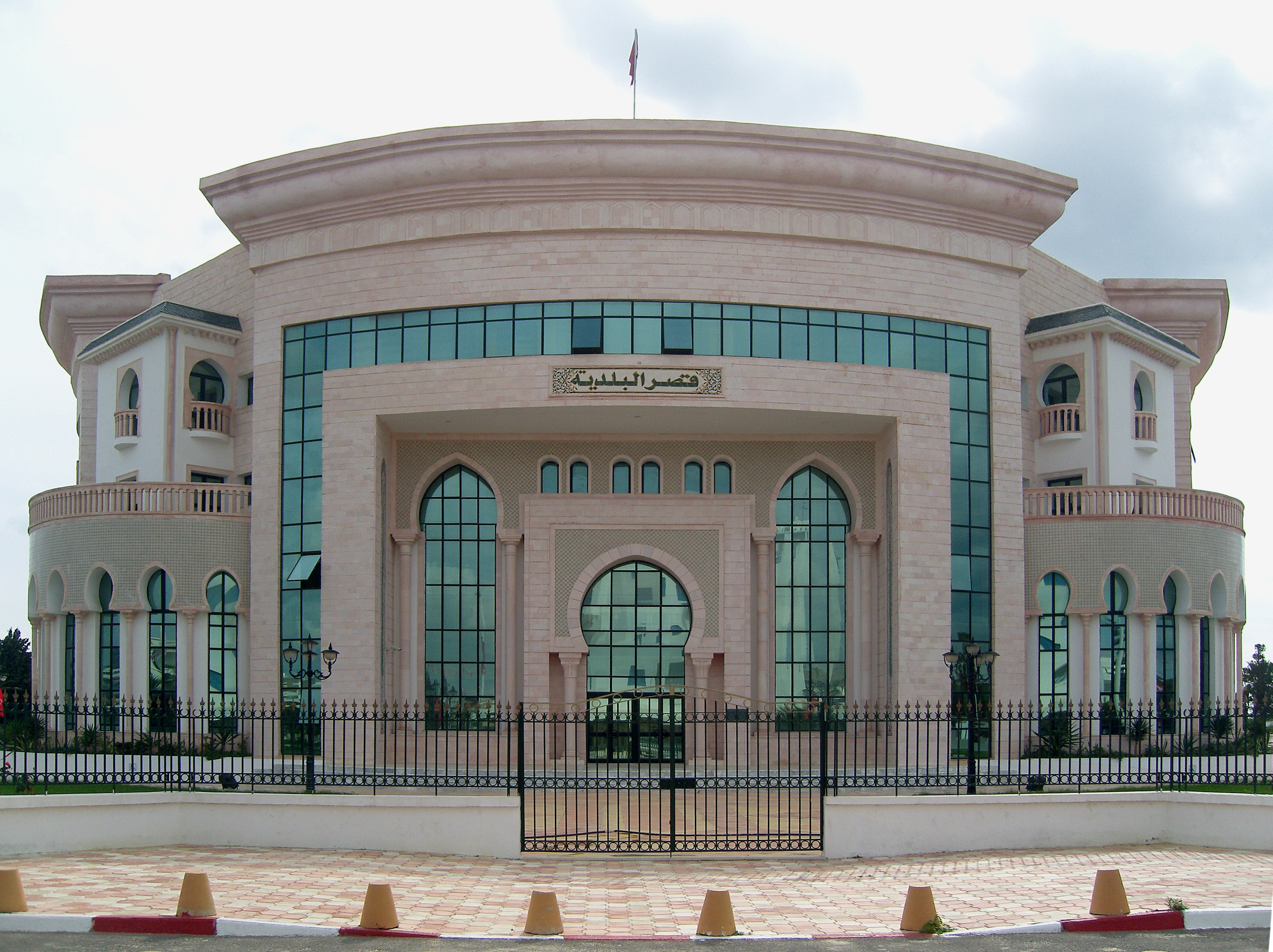 Town hall of Nabeul (Tunisia)